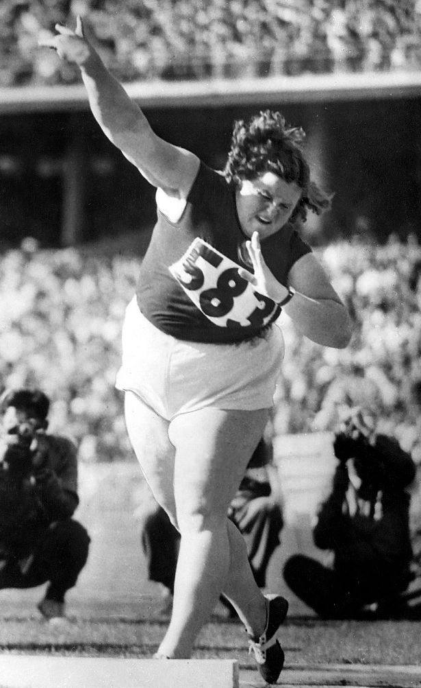 1956 Press Photo Russian Tamara Tychkevitch throws shot put, Melbourne Olympics